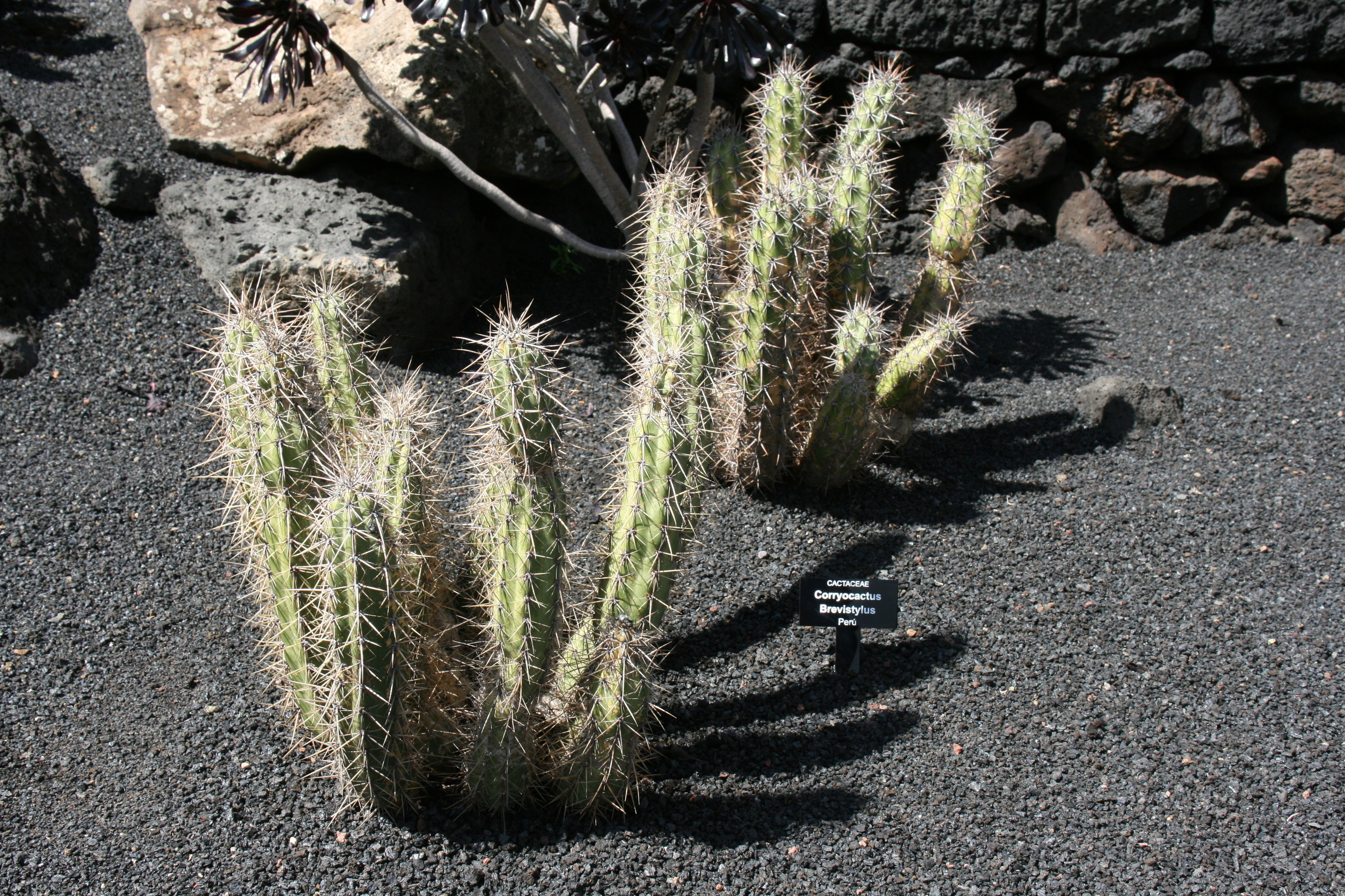 Corryocactus brevistylus grown in the Botanical Garden “Jardin de Cactus” in Guatiza, Teguise, Lanzarote, Canary Islands